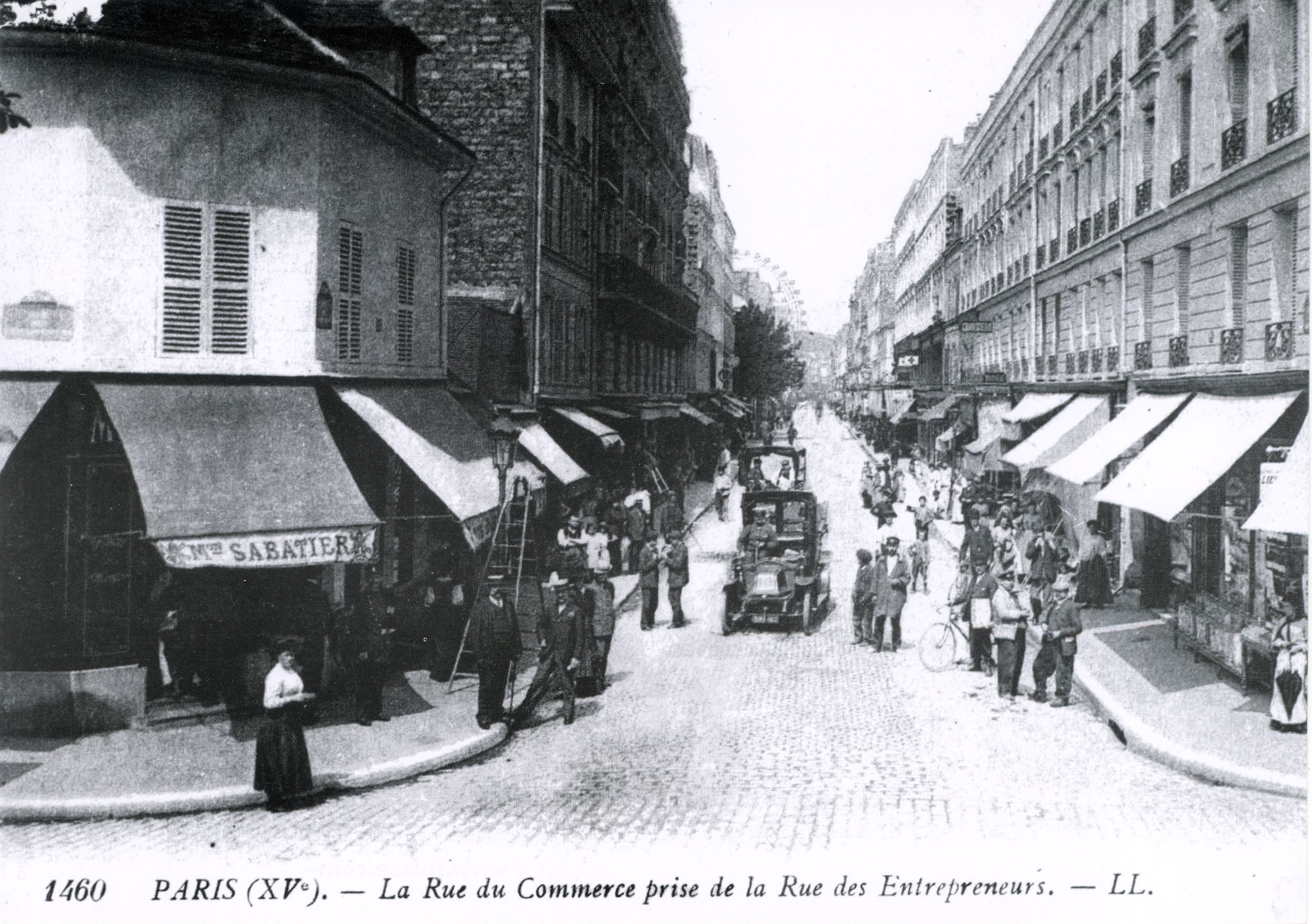 Commerce Street in Paris, 15th district, as seen from Entrepreneur street, circa 1910.